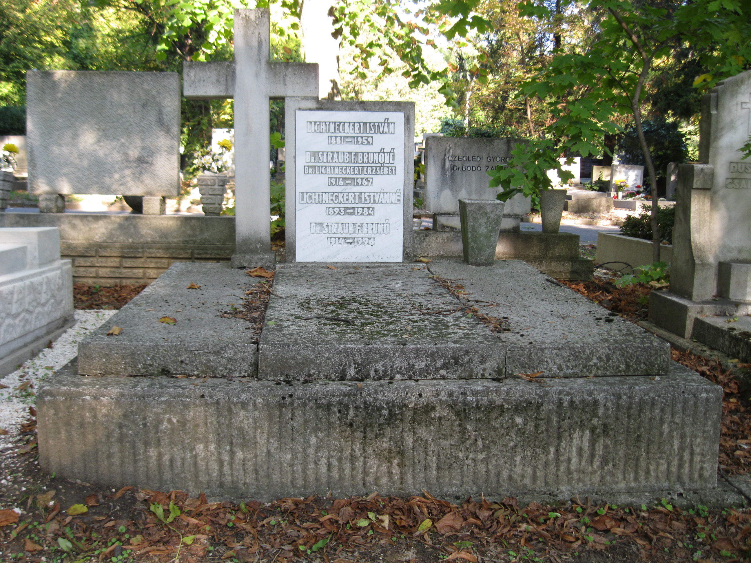 Tomb of Brunó Straub F. in Farkasréti Cemetery [2/3-1-161/162]